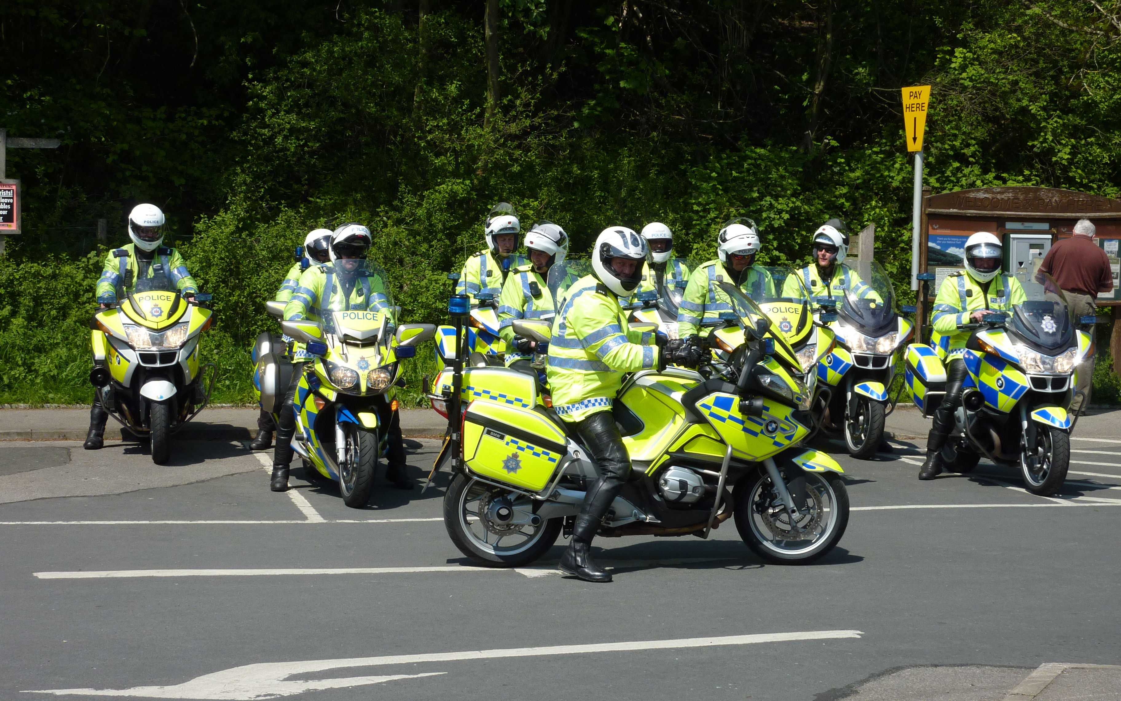 A fleet of British Police Motorcycles.